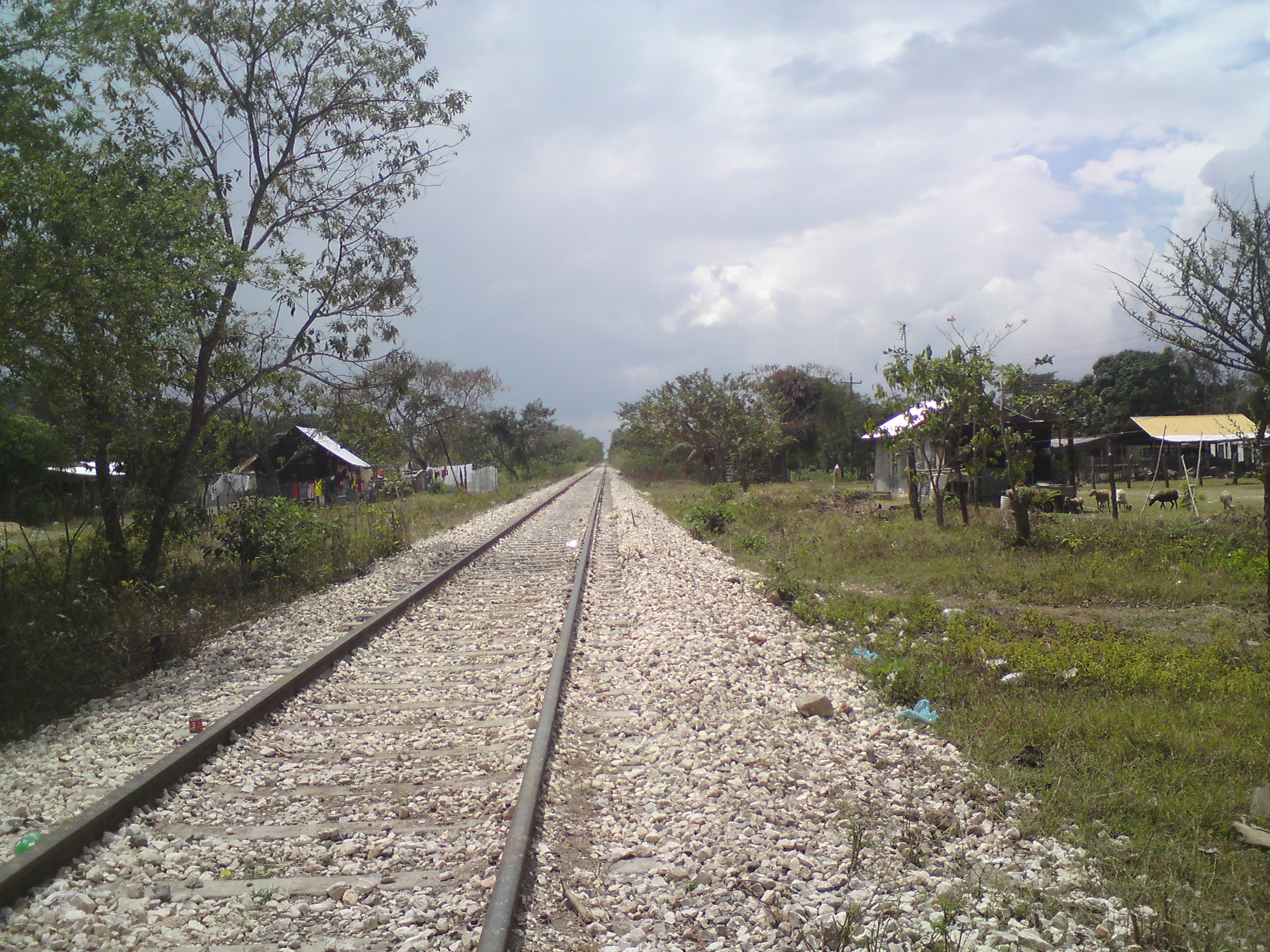 Railroad tracks on its way through the Villa El Triunfo, on balance, Tabasco. Currently part of the sleepers that this track is made of concrete, including the section that runs through this community.